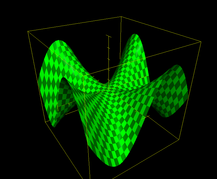 rendered using Grapher 1.0 (Apple, Inc).